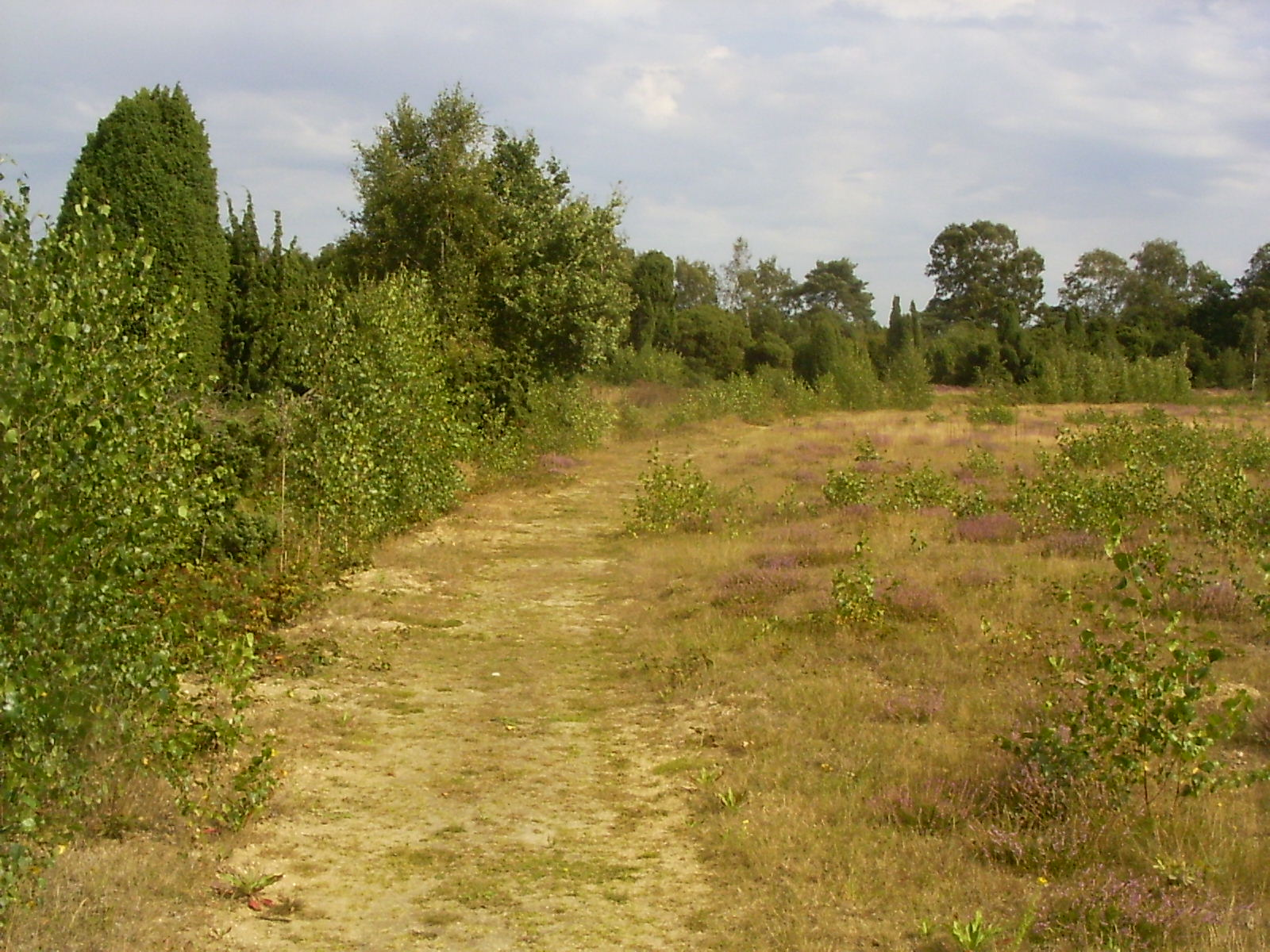 Circles of Mander